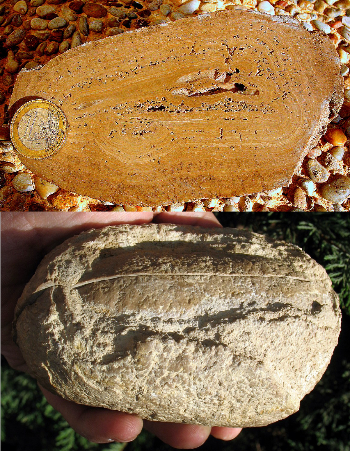 "Giant" oncolite. From freshwater Lower Miocene beds near Priego (Cuenca, Spain). Section and specimen (cut in two halves). 13 x 7 x 8 cm. Hollow core, probably of organic origin (a stick?). (Scale coin: 1 EUR, Ø 23,25 mm)